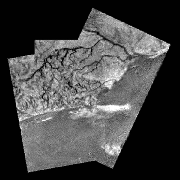 This mosaic of three frames provides unprecedented detail of the high ridge area including the flow down into a major river channel from different sources. This mosaic of three frames from the Huygens Descent Imager/ Spectral Radiometer (DISR) instrument provides unprecedented detail of the high ridge area including the flow down into a major river channel from different sources.